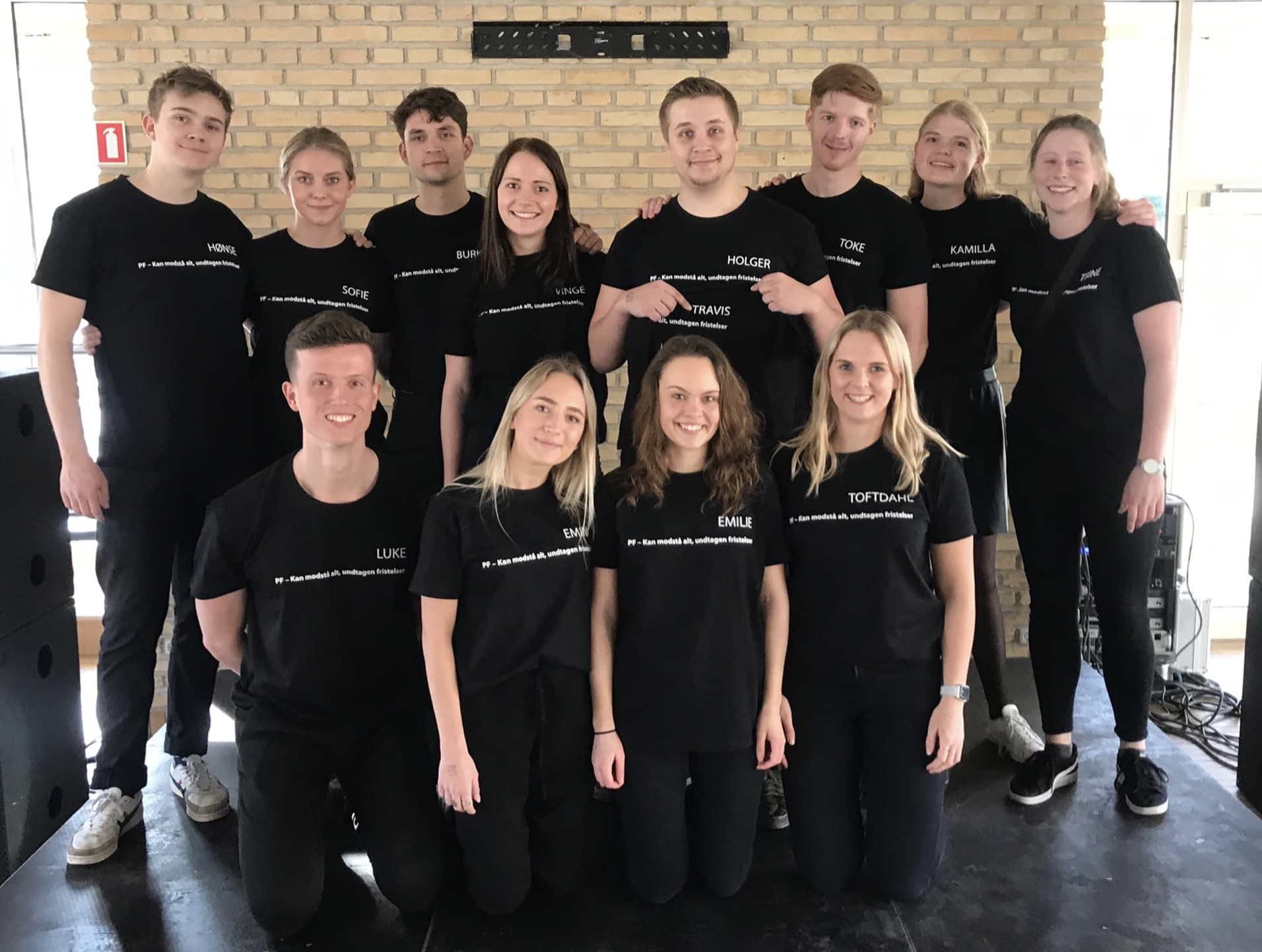 Slogan for board